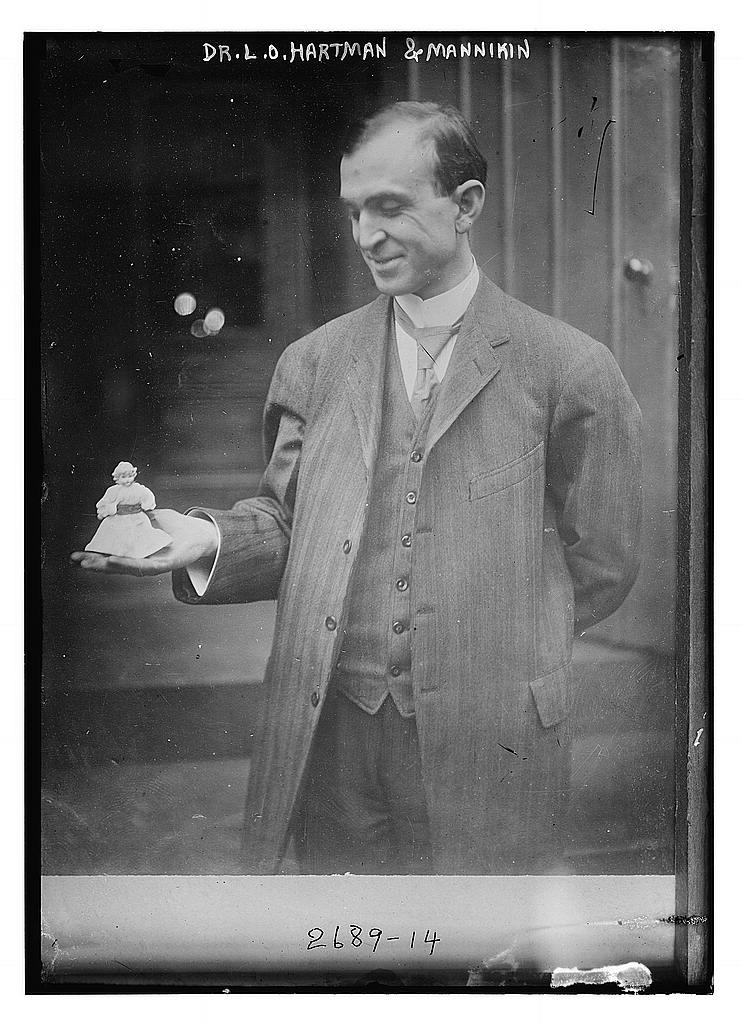 Bain News Service,, publisher. Dr. Louis O. Hartman and mannekin in 1913 [no date recorded on caption card] 1 negative : glass ; 5 x 7 in. or smaller. Notes: Title from unverified data provided by the Bain News Service on the negatives or caption cards. Forms part of: George Grantham Bain Collection (Library of Congress). Format: Glass negatives. Repository: Library of Congress, Prints and Photographs Division, Washington, D.C. 20540 USA, General information about the Bain Collection is available at Persistent URL: Call Number: LC-B2- 2689-14